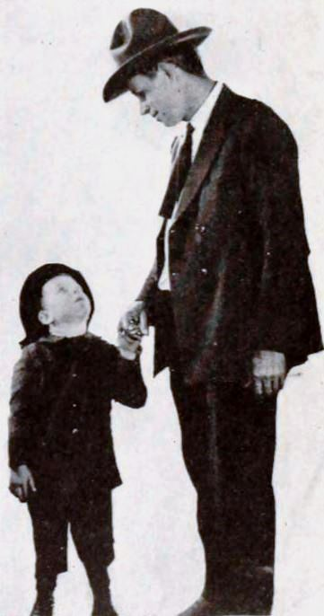 Still from the American drama film The Strange Boarder (1920) with Will Rogers and his son Jimmy, on page 71 of the April 10, 1920 Exhibitors Herald.